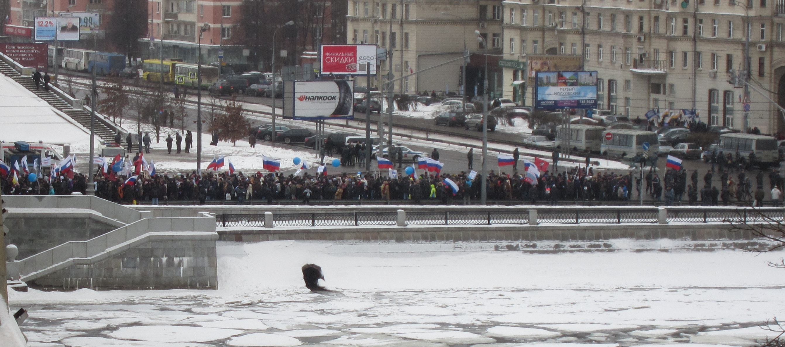 Pro-Putin rally at Frunzenskaya embankment